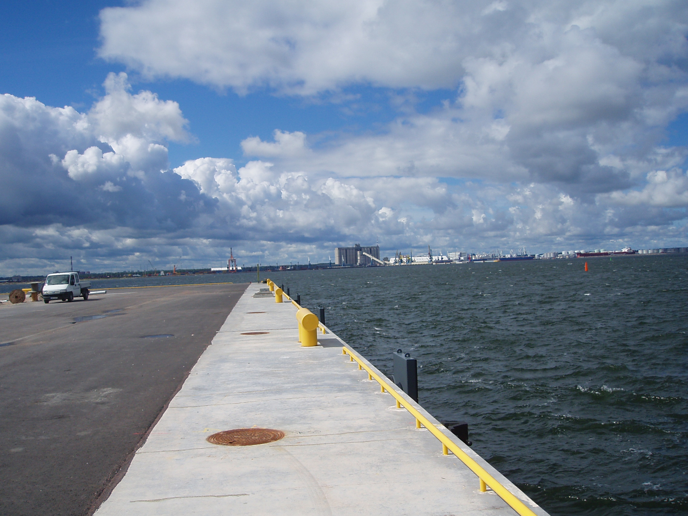 Quay 33 (198 / -11,0) in Muuga sadam - Port of Muuga 28 June 2005 (buoy Muuga Bay Fl(1)R 3s (B: 59°30′20.4″N; L: 24°59′33.88″E) and buoy Muuga Bay Fl(1)G 3s (B: 59°30′16.63″N; L: 24°59′7.79″E)